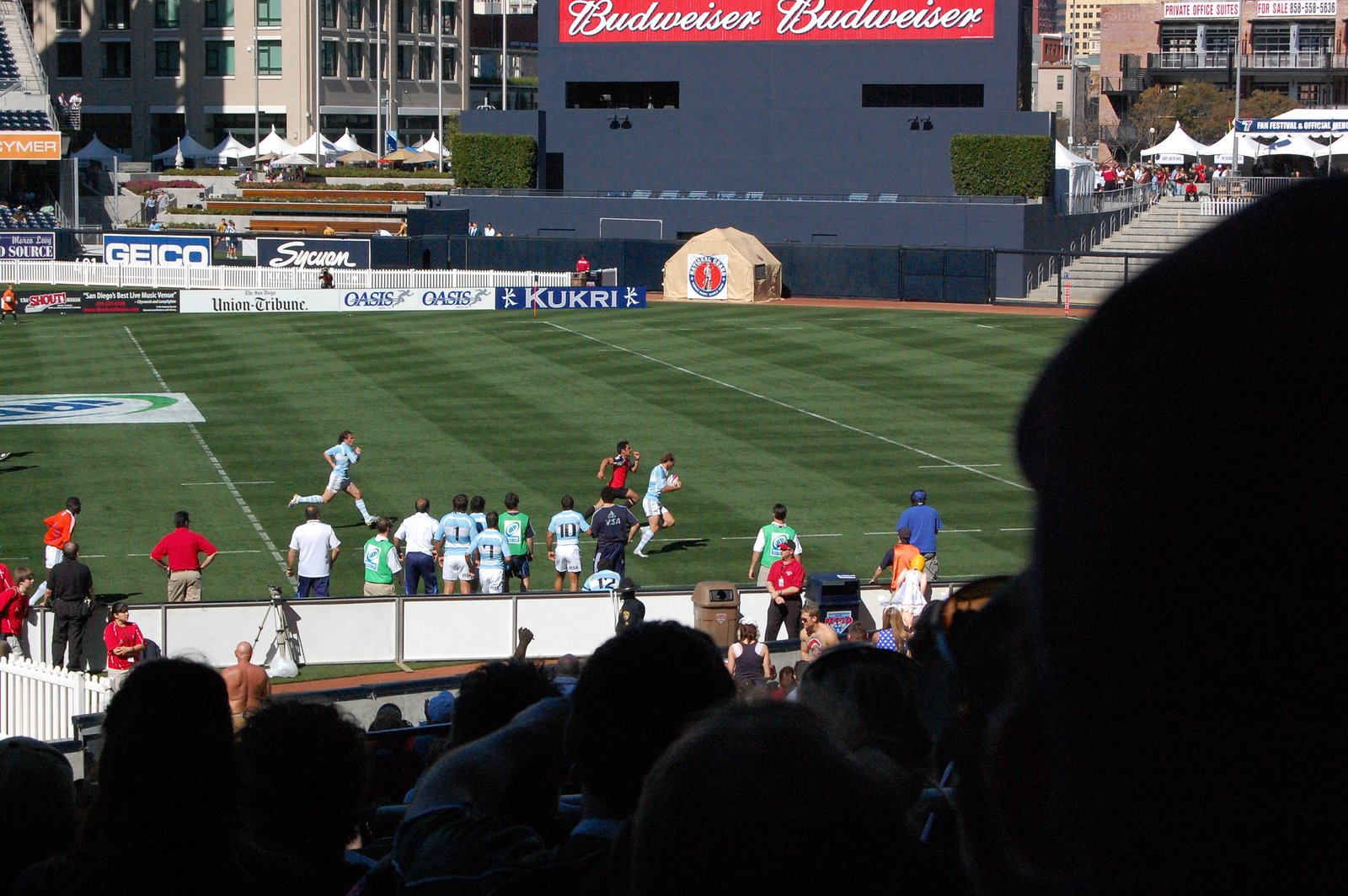 Argentina at San Diego 2008 Rugby Seven Tournament